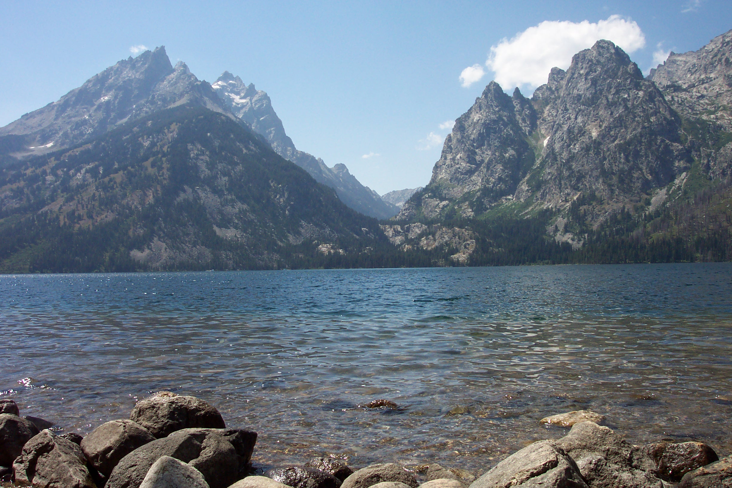 Cascade Canyon at Grand Teton National Park. Photograph taken and annotated by Christopher Sokolowski in August 2003. This image is (C) Copyright 2003 and (with the exception of its use under the GFDL) all rights are reserved.